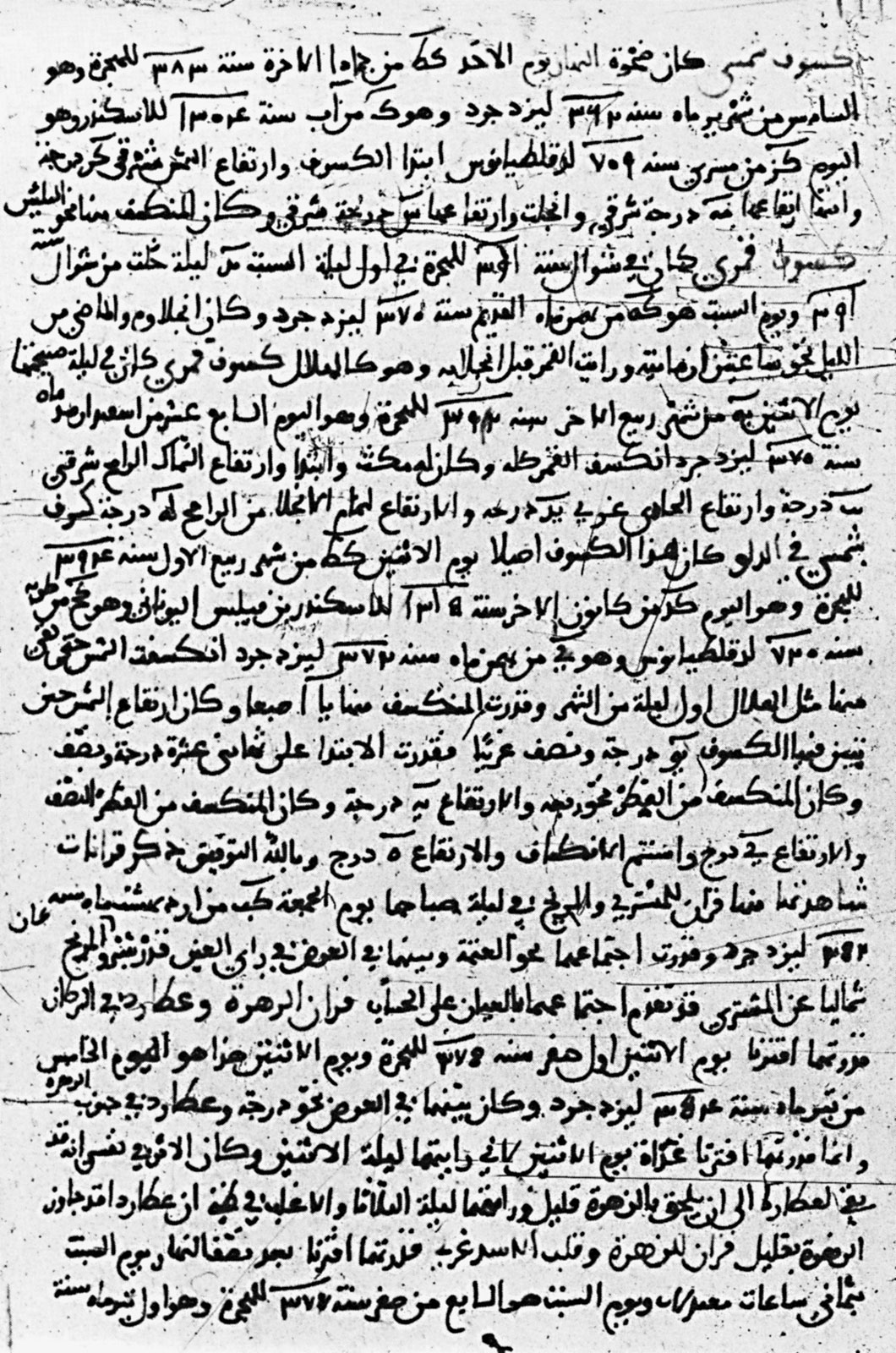 Arabic manuscript recording the solar eclipses of 993 and 1004 as well as the lunar eclipses of 1001 and 1002